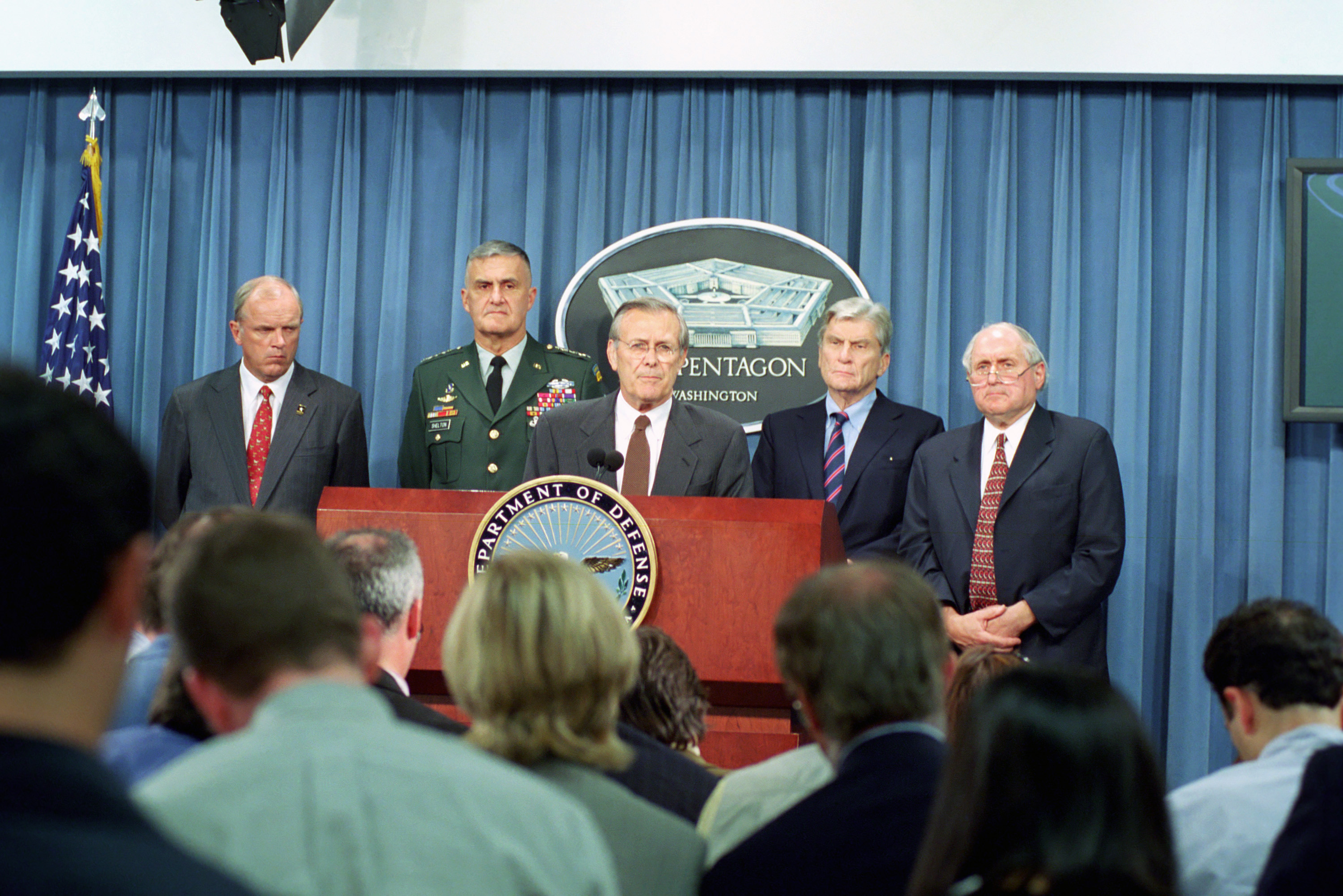 U.S. Secretary of Defense, Donald H. Rumsfeld, (background center), speaks to the media shortly after terrorist's crashed American Airlines flight 77 into the Pentagon, on Sept. 11, 2001. Standing behind Secretary Rumsfeld are (left to right): Thomas E. White, Secretary of the Army; U.S. Army Gen. Henry H. Shelton, Chairman of the Joint Chiefs of Staff; U.S. Senator John W. Warner, (R-Va.), and U.S. Senator Carl M. Levin, (D-Mich.). OSD Package No. P07-0090 (DOD Photo by Helene C. Stikkel) (Released)